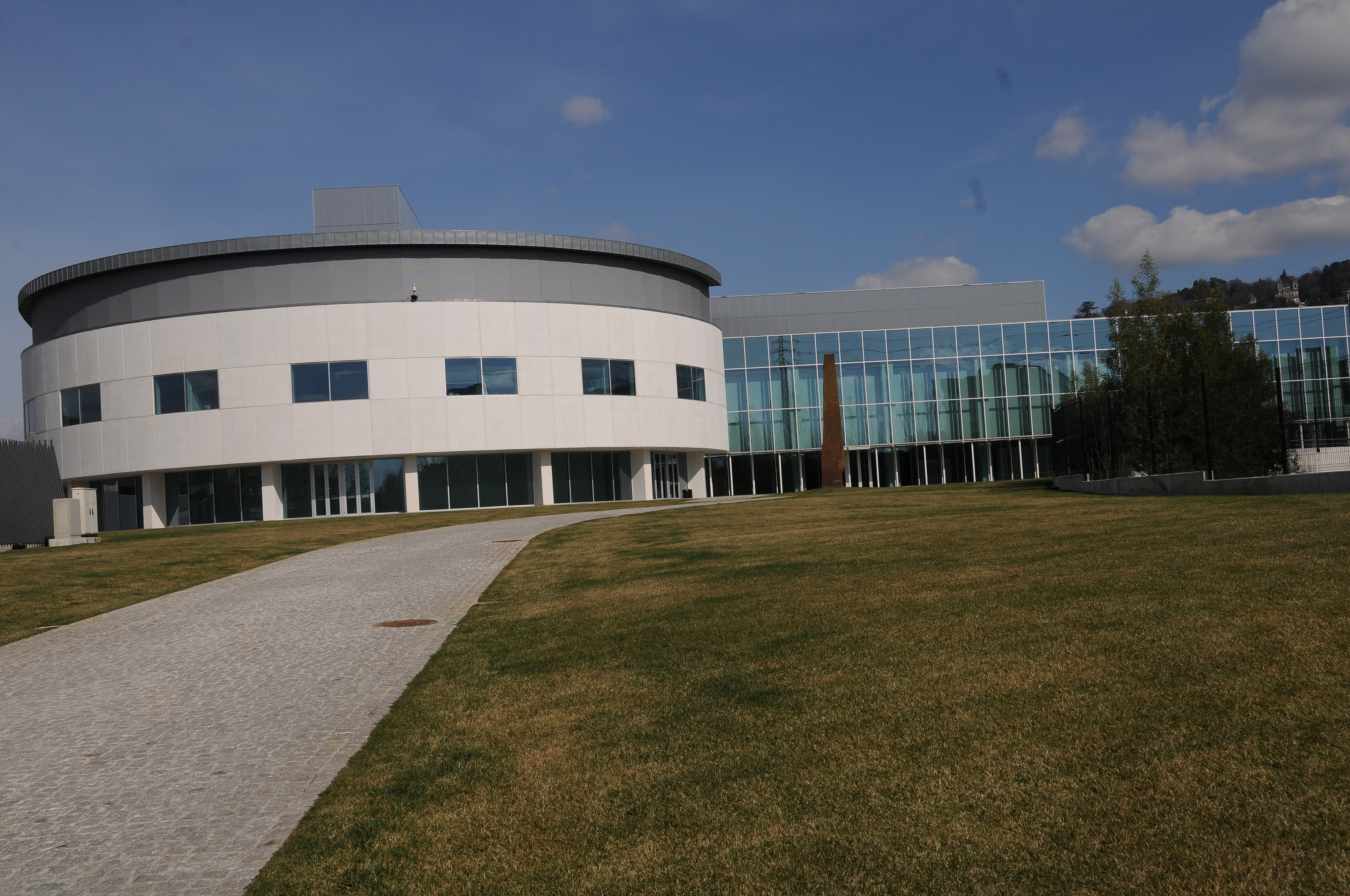 Instituto de Nanotecnologia de Braga-Portugal.